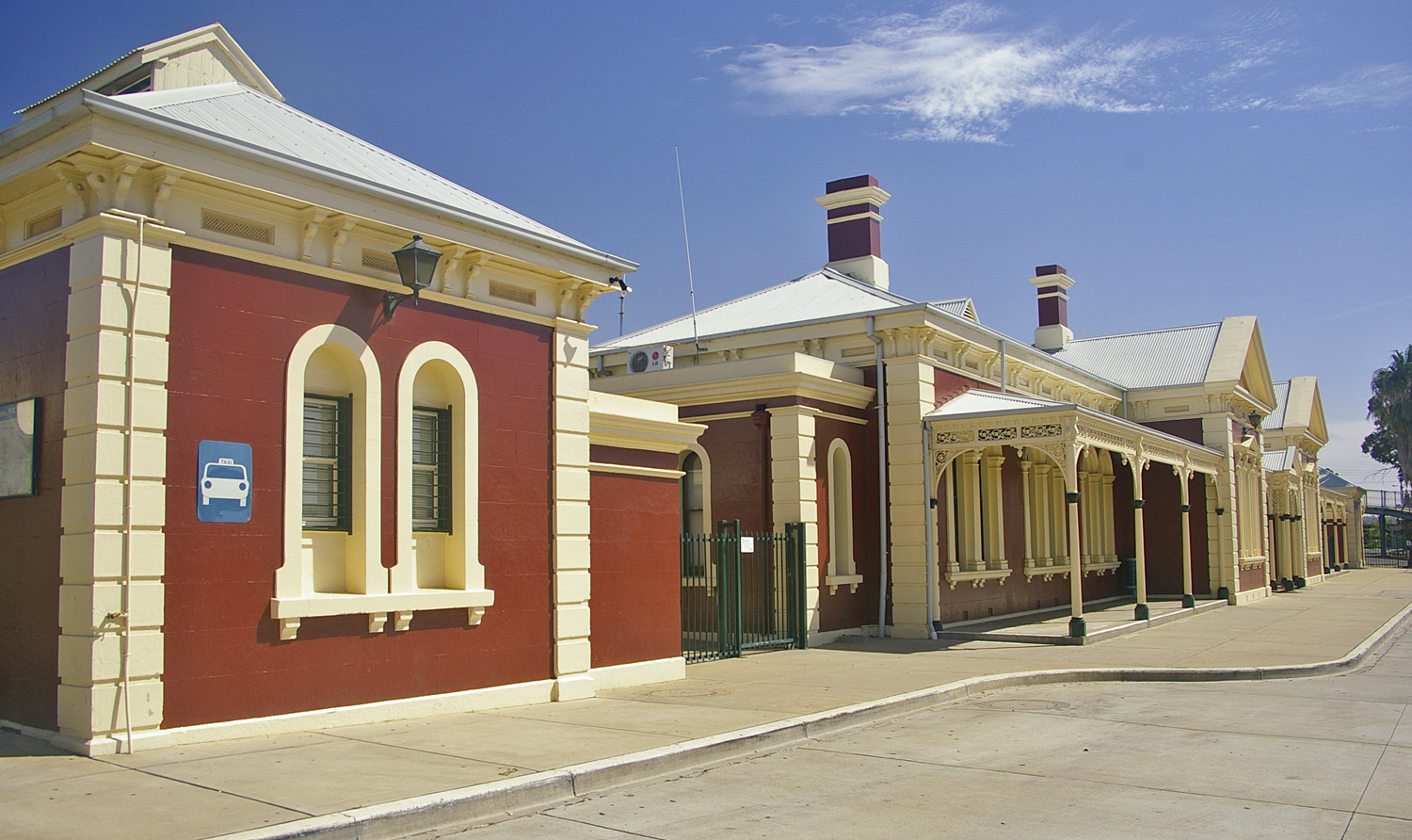 Wagga Wagga Railway Station